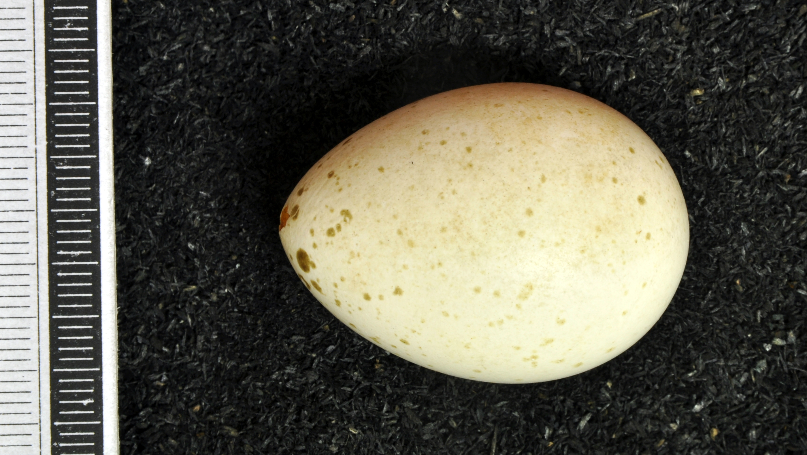 Ruffed grouse Bonasa umbellus , egg, Coll. Museum Wiesbaden